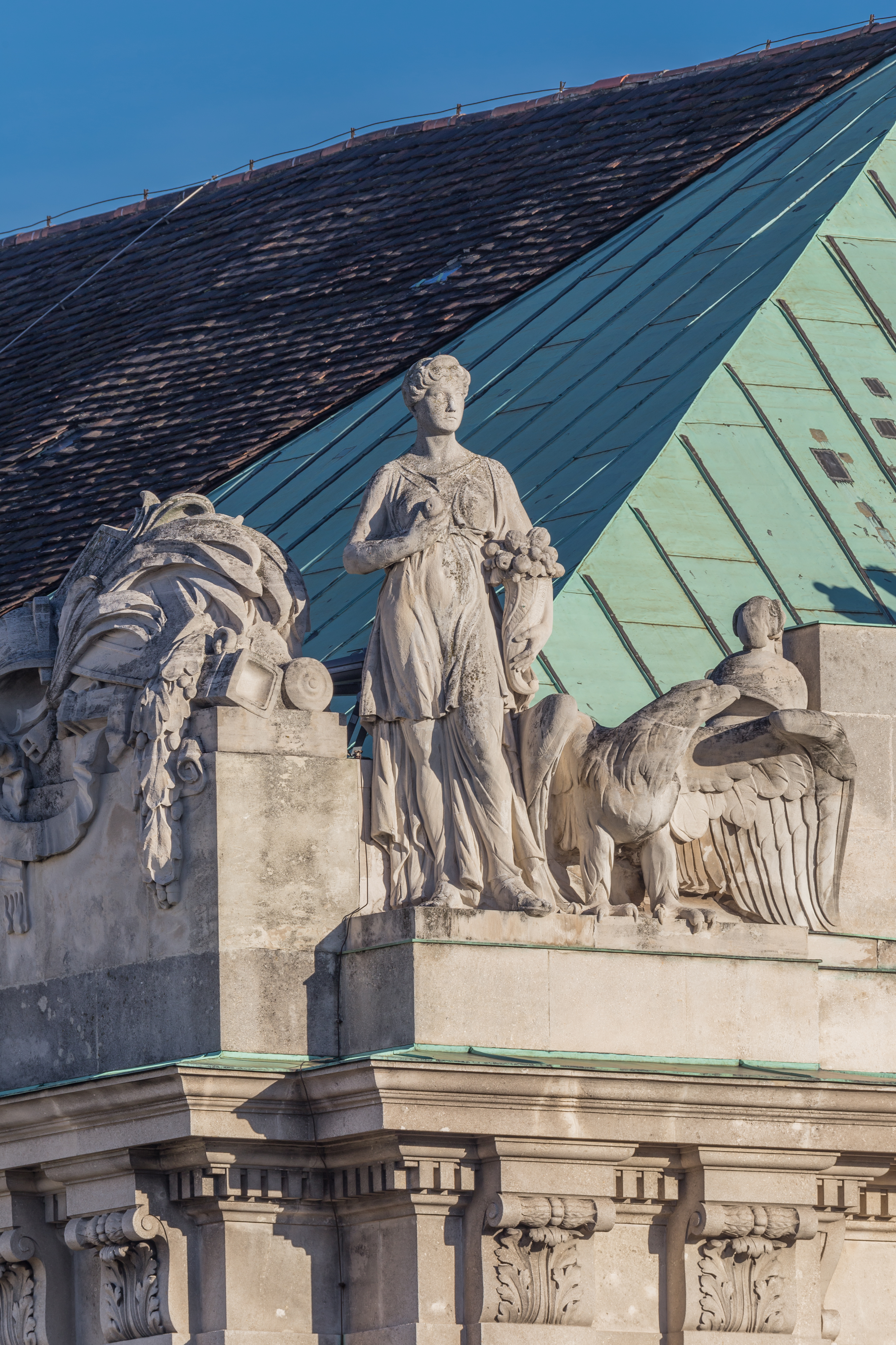 Figures at the neue Burg, Vienna